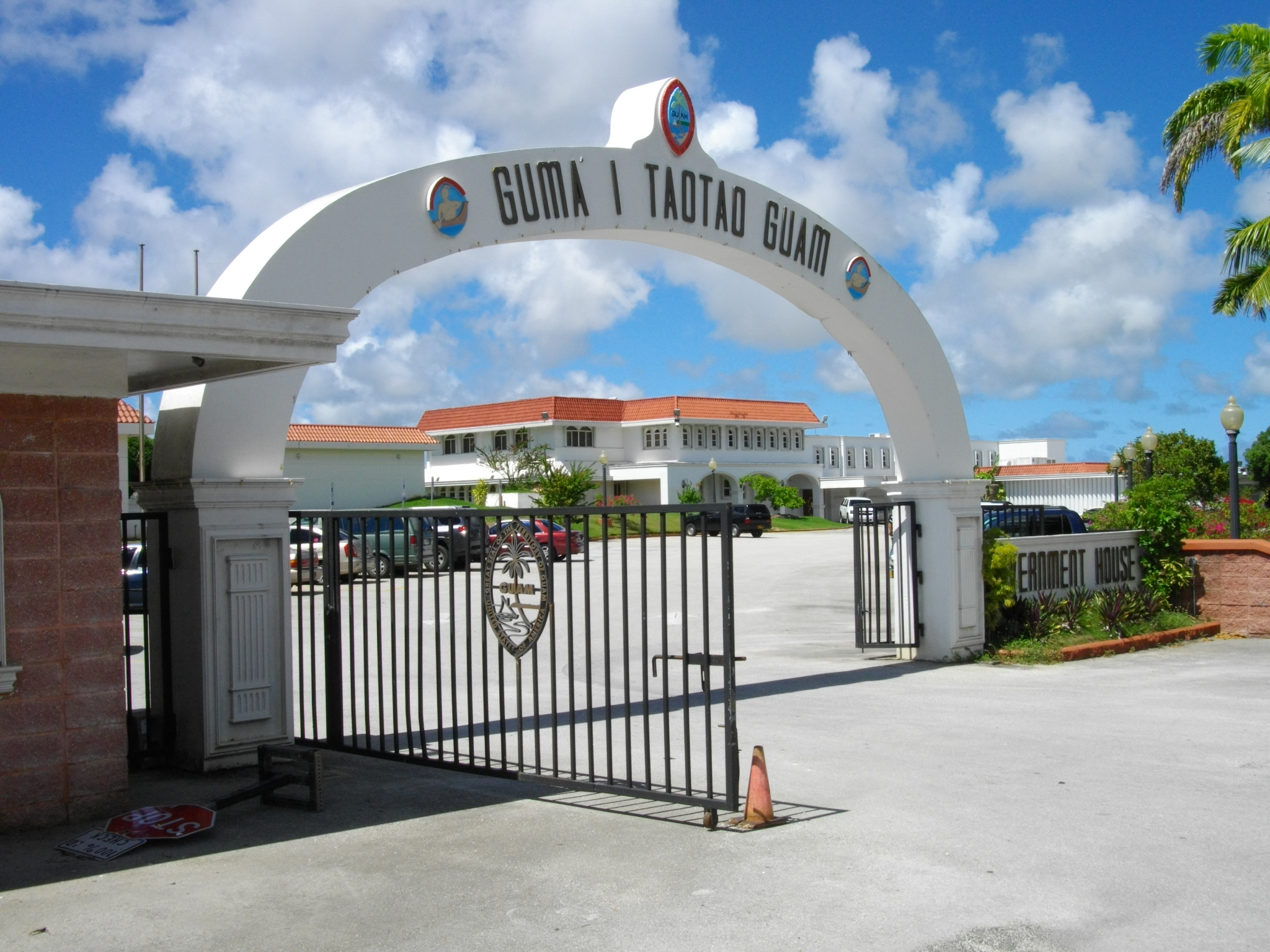 Guam Government House